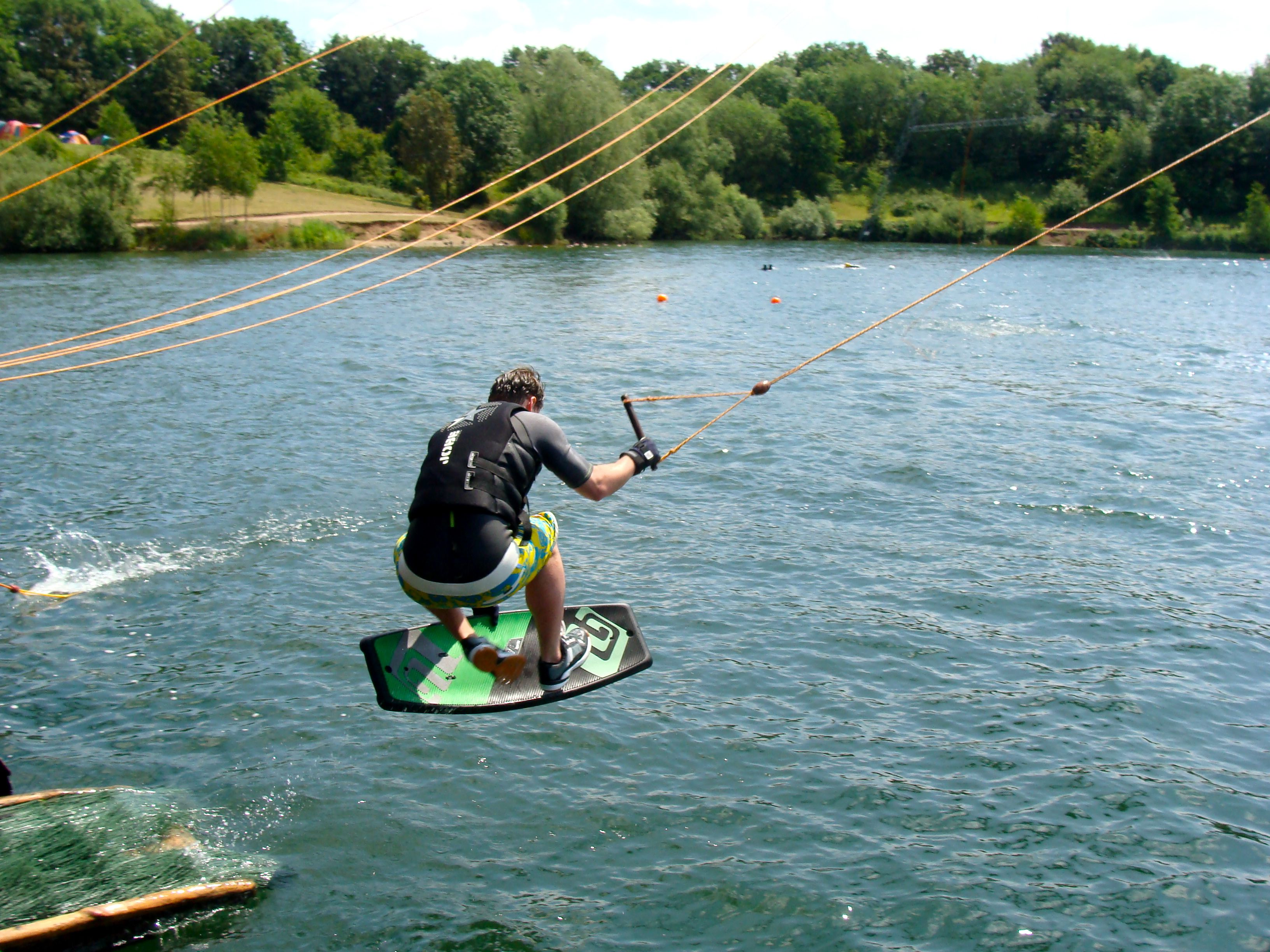 Jumpstart Wakeskate (Langenfeld, Germany)